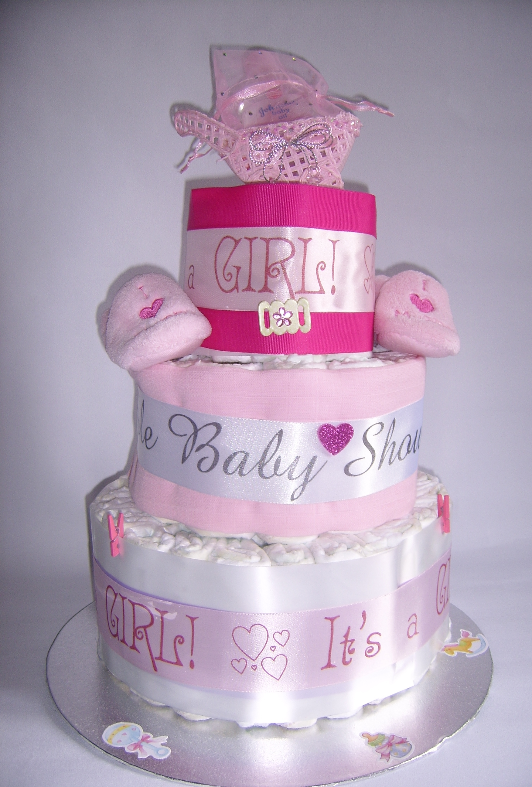 A 3-tier nappy cake to celebrate an expecting mum and her future baby girl.